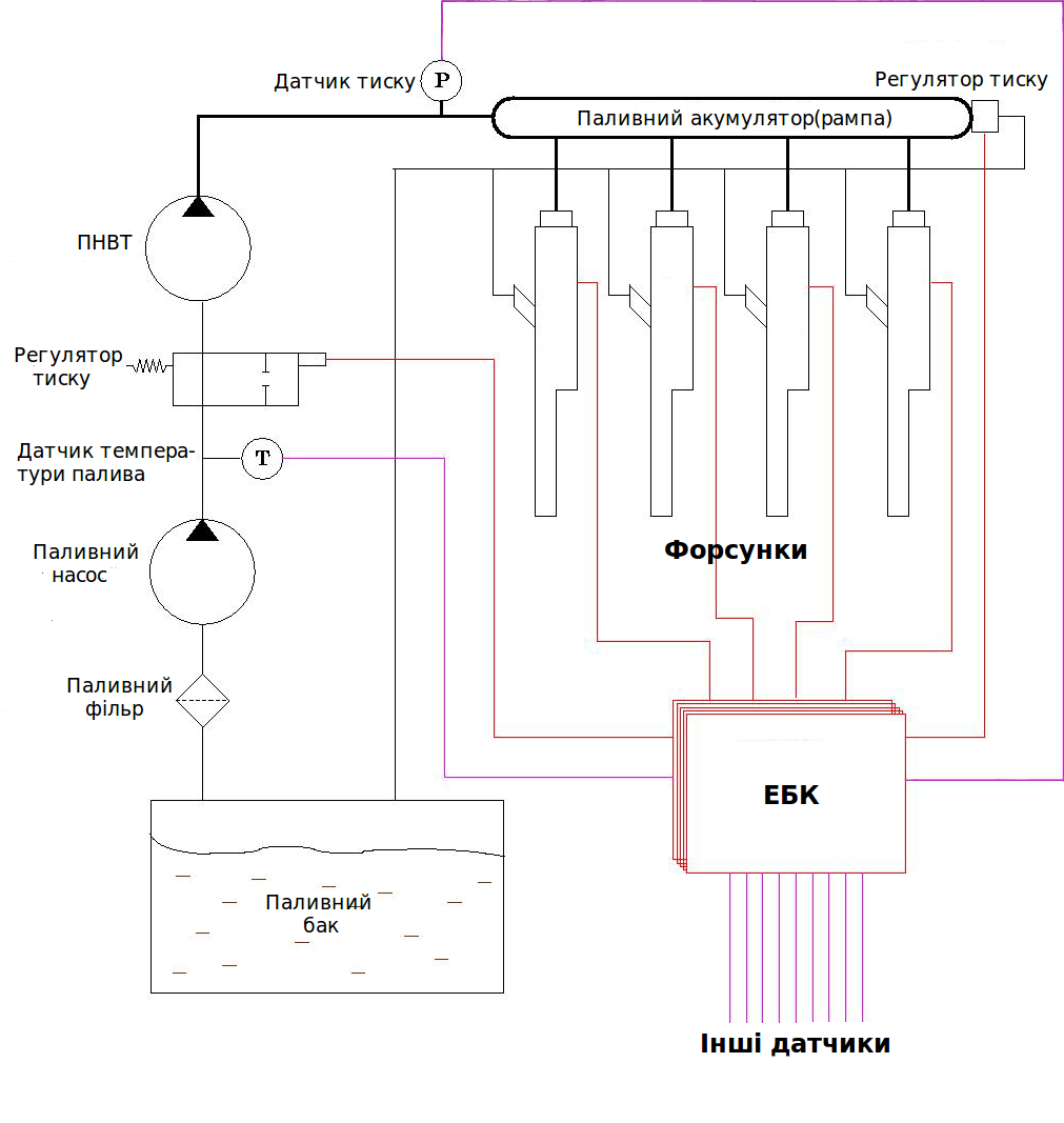 Common_Rail_Scheme_in_Ukrainian